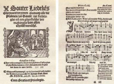 Souterliedekens, Dutch psalms, published in 1540 in Antwerp